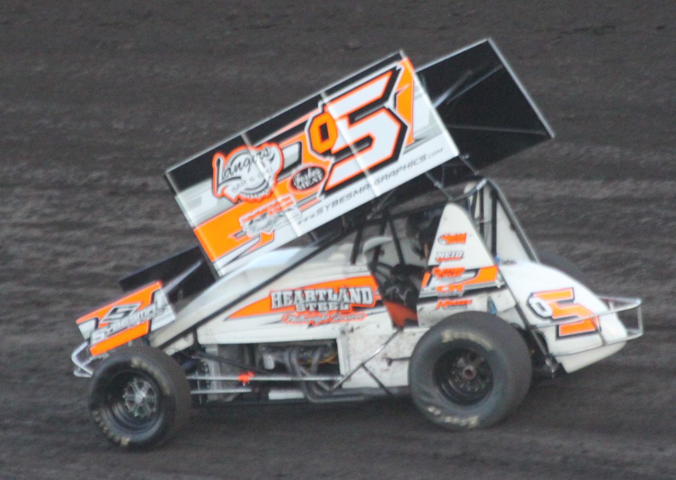 The #05 IMCA Raceceiver Sprint car of Colin Smith at Badlands Motor Speedway.